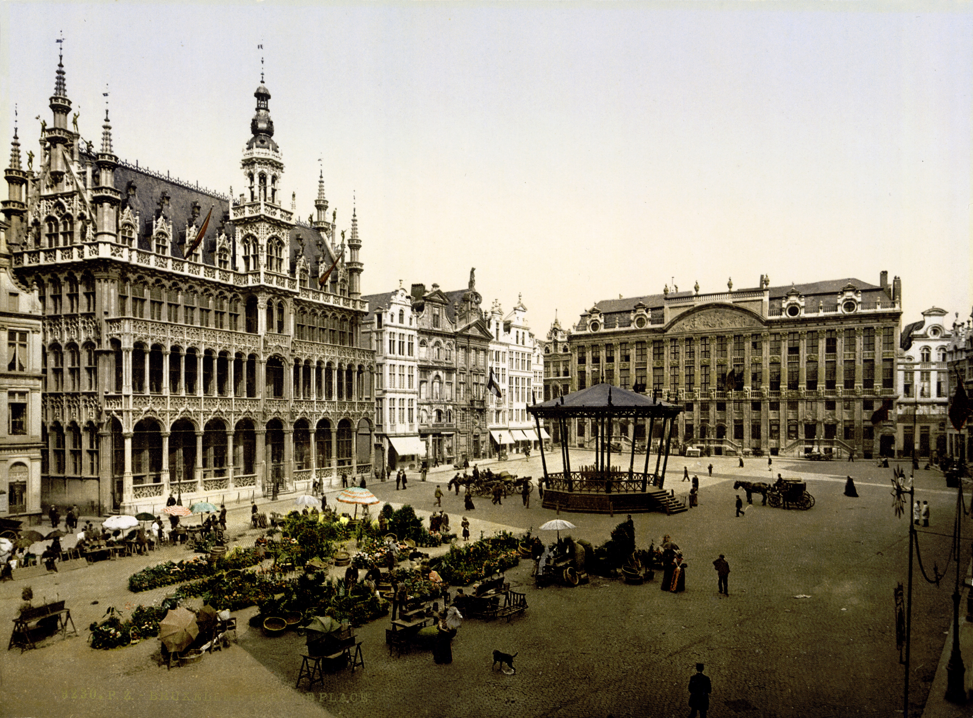 9230 P.Z. Bruxelles. La Grande Place. Photochrom print by Photoglob Zürich, between 1890 and 1900. From the Photochrom Prints Collection at the Library of Congress More photochroms from Belgium | More photochrom prints [PD] This picture is in the public domain